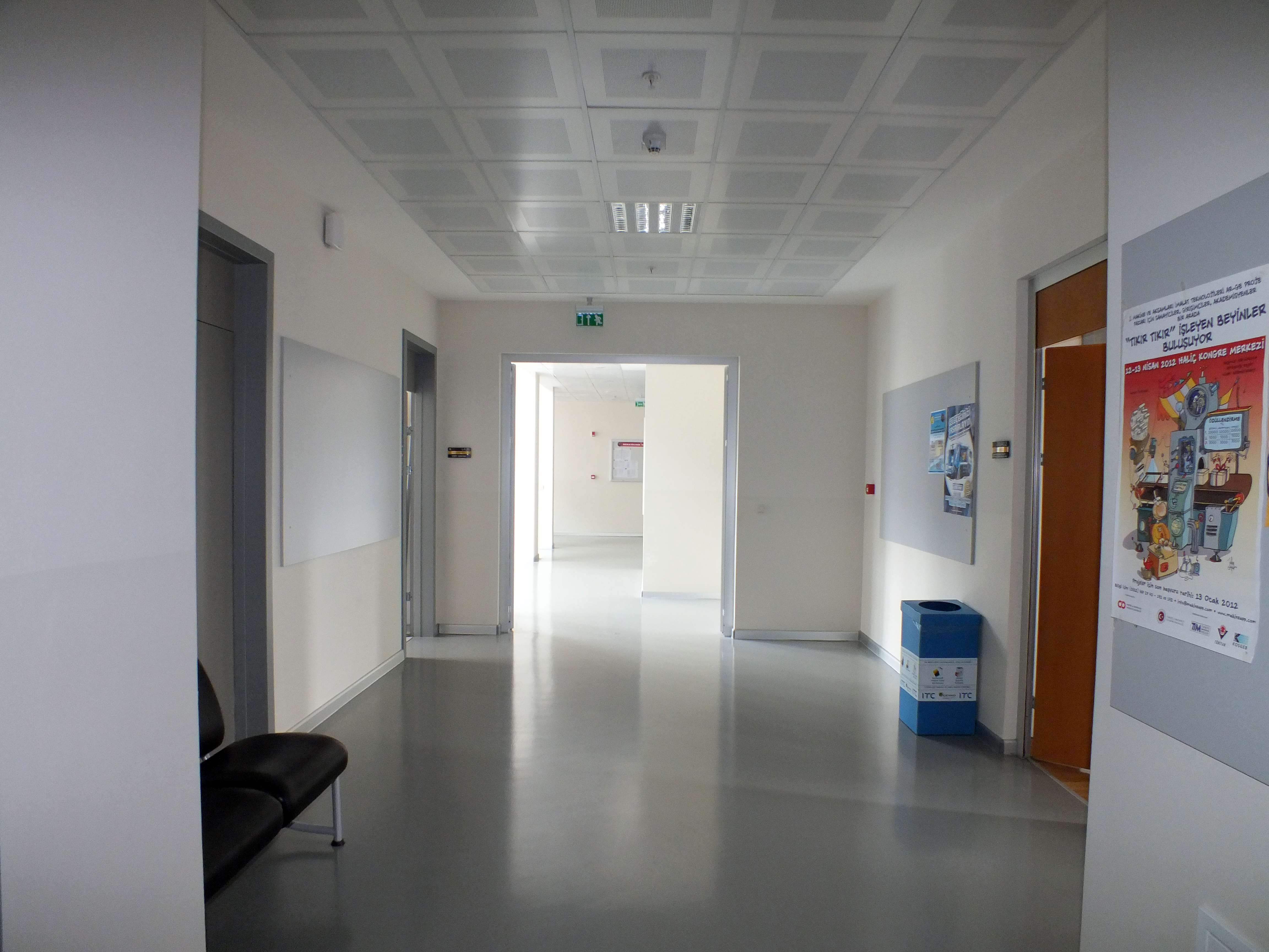 A view of the Department of Mechanical Engineering of Çankaya University. The department is in Engineering Building L Block.